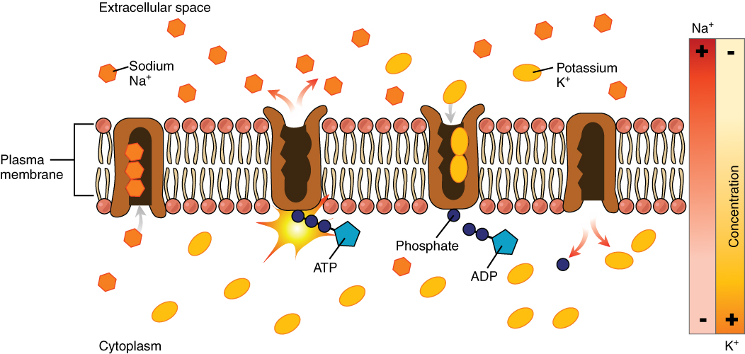 Caption: The sodium-potassium pump is found in many cell (plasma) membranes. Powered by ATP, the pump moves sodium and potassium ions in opposite directions, each against its concentration gradient. In a single cycle of the pump, three sodium ions are extruded from and two potassium ions are imported into the cell. URL: Version 8.25 from the Textbook OpenStax Anatomy and Physiology Published May 18, 2016